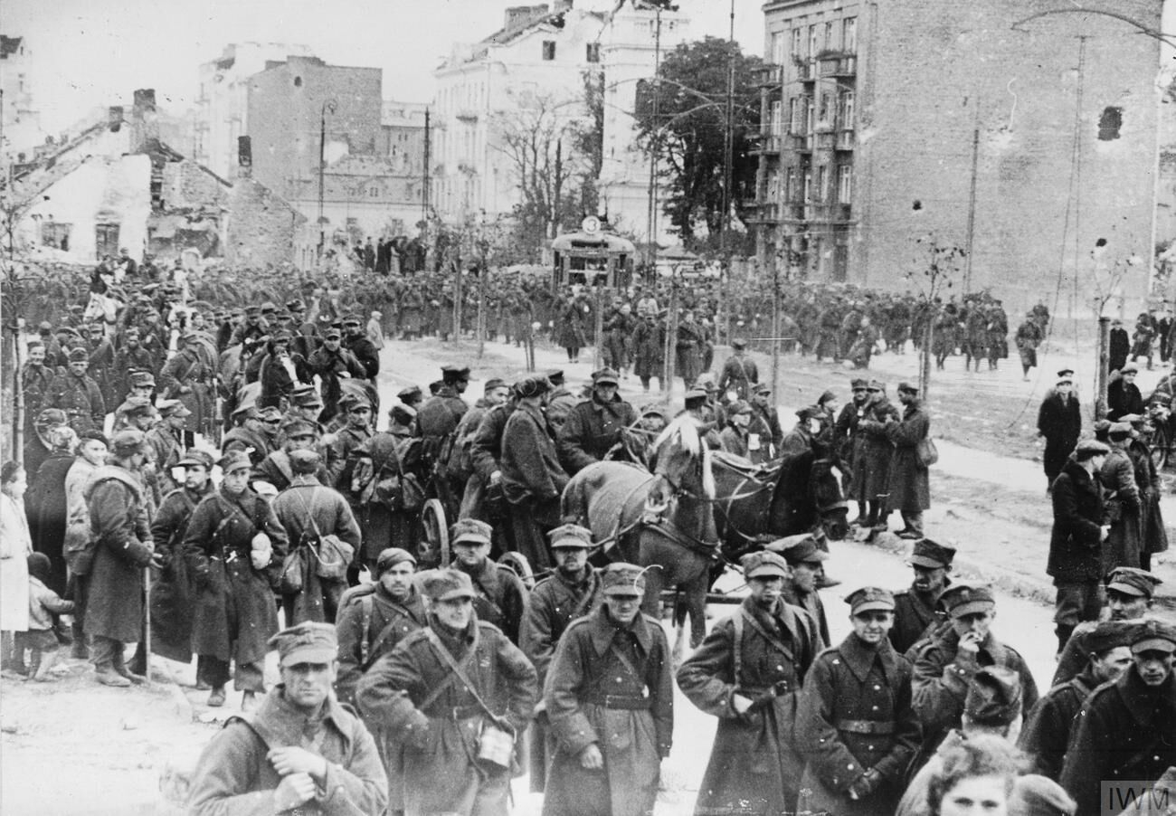 Polish soldiers march out of the Warsaw garrison after it is taken by Germans on 28 September 1939.